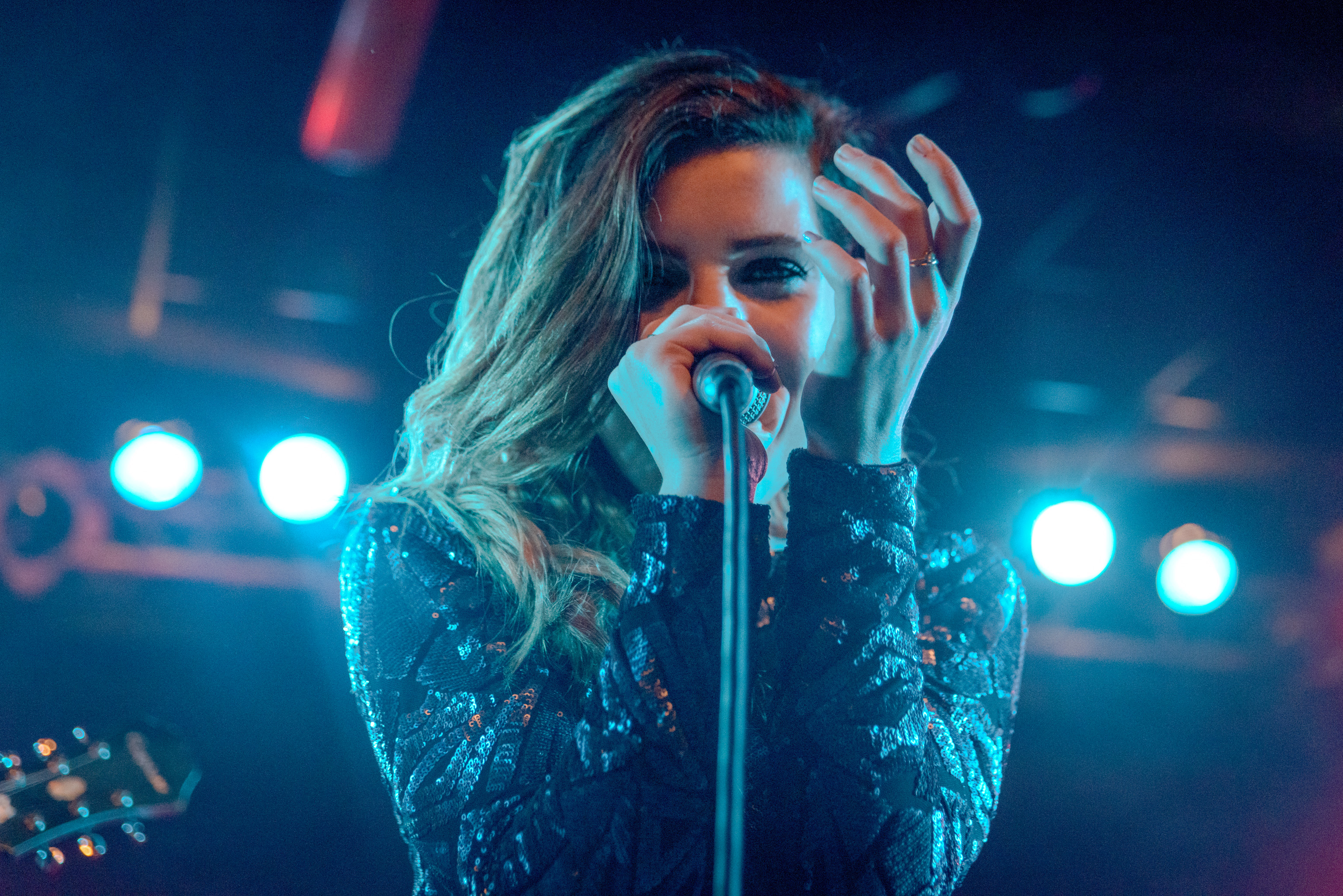 Echosmith in Munich 2015